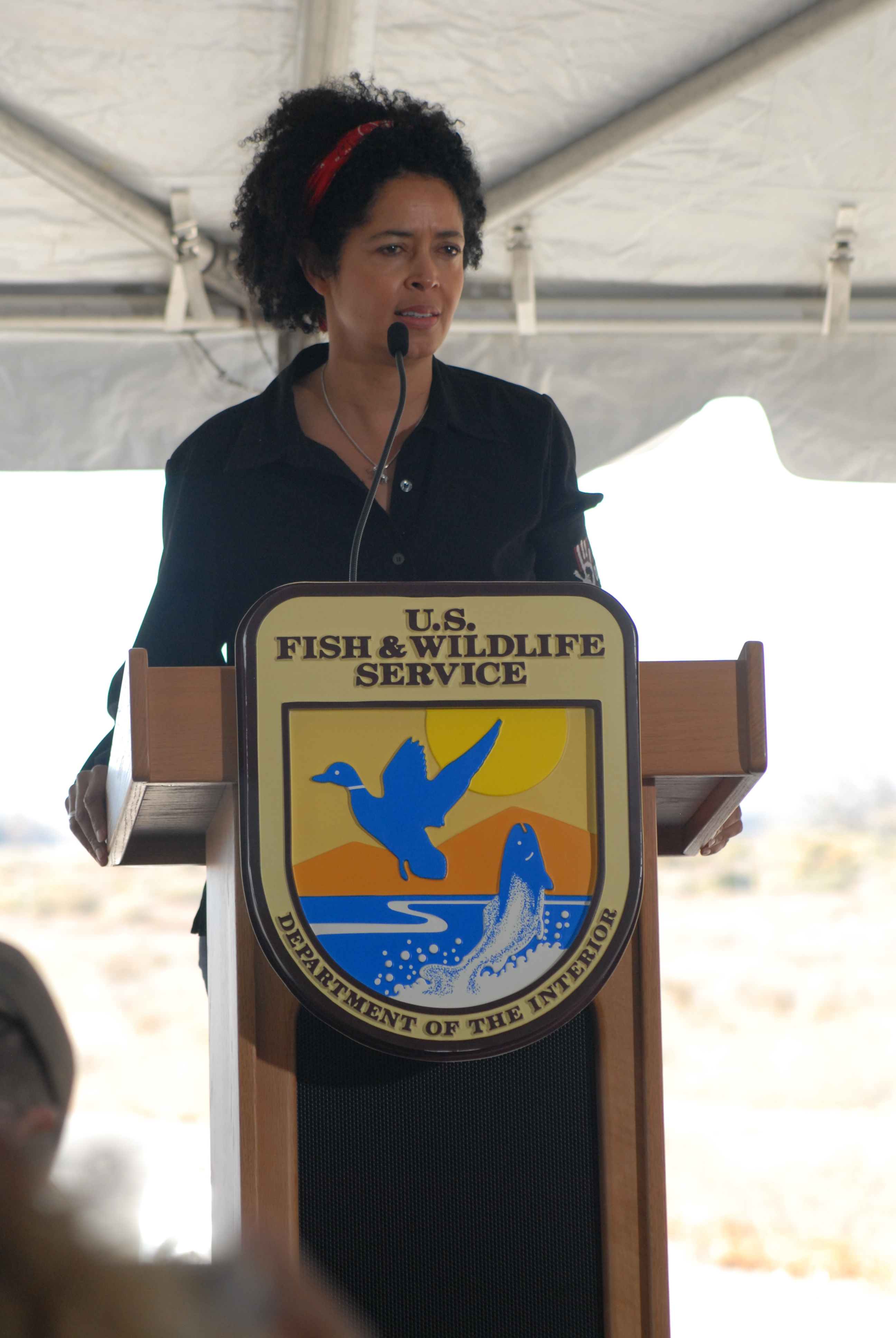 Photo Credit: Gavin Shire / USFWS USFWS ivory crush at Rocky Mountain Arsenal National Wildlife Refuge on November 14, 2013